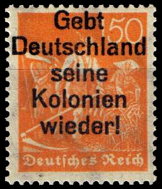 Private German propaganda overprint for lost colonies returning, 150 pfennigs, 1921, on scott#148 stamp